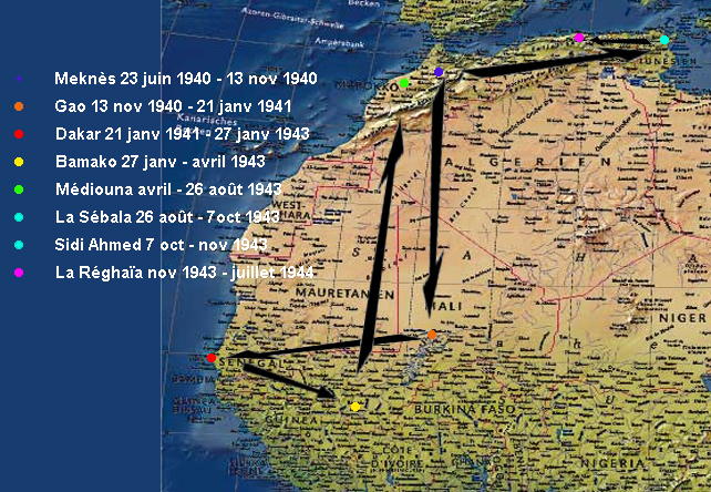 Base statement of SPA153 in Africa